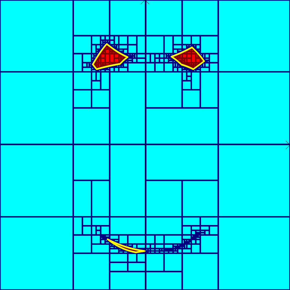 Feasible set for the paramaters